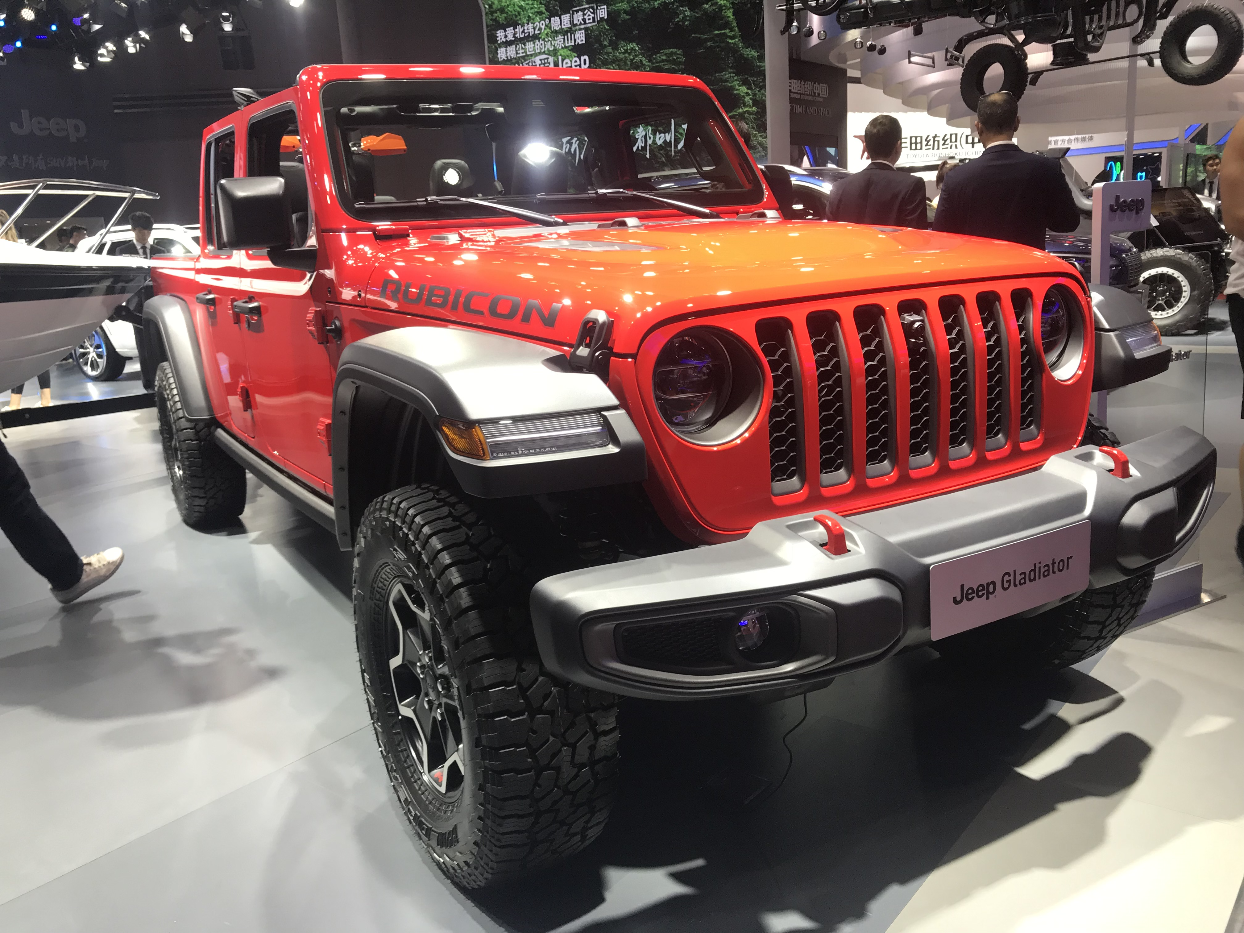 Jeep Gladiator (JT) front